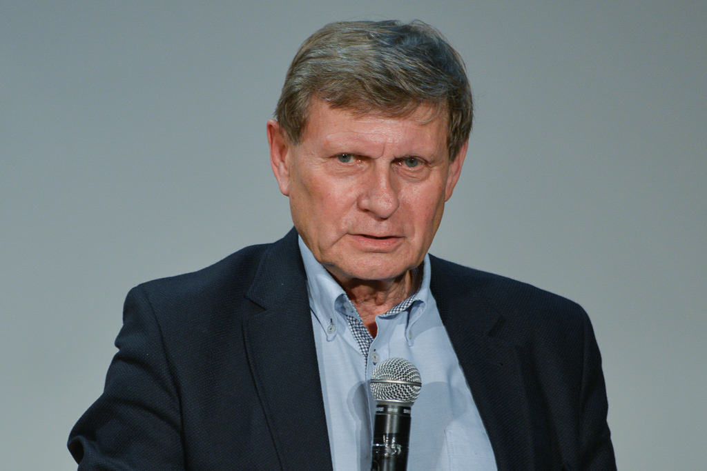 Leszek Balcerowicz, former Polish minister of finance, economist